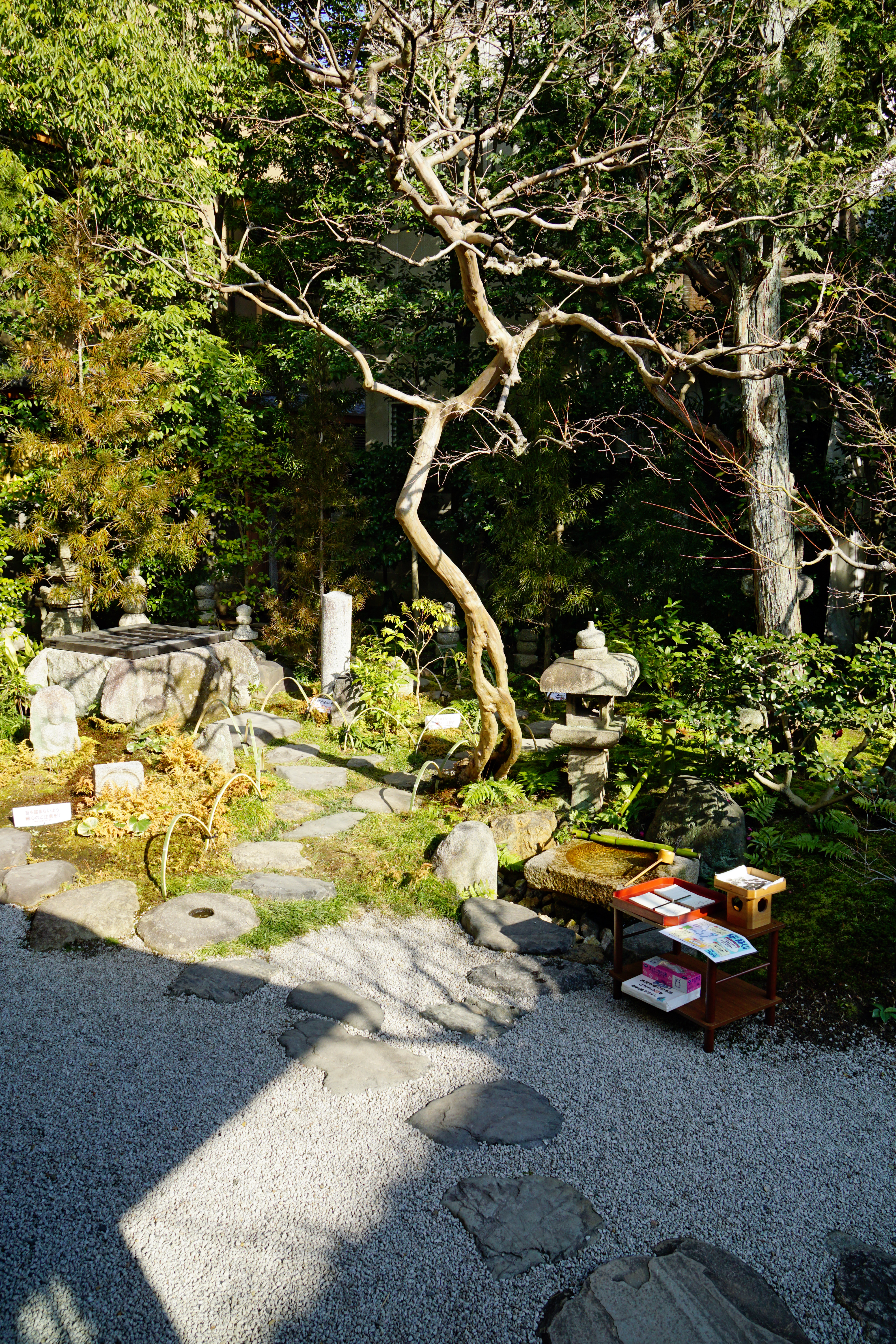 Rokudo Chinno-ji, Higashiyama-ku, Kyoto, Kyoto prefecture, Japan.